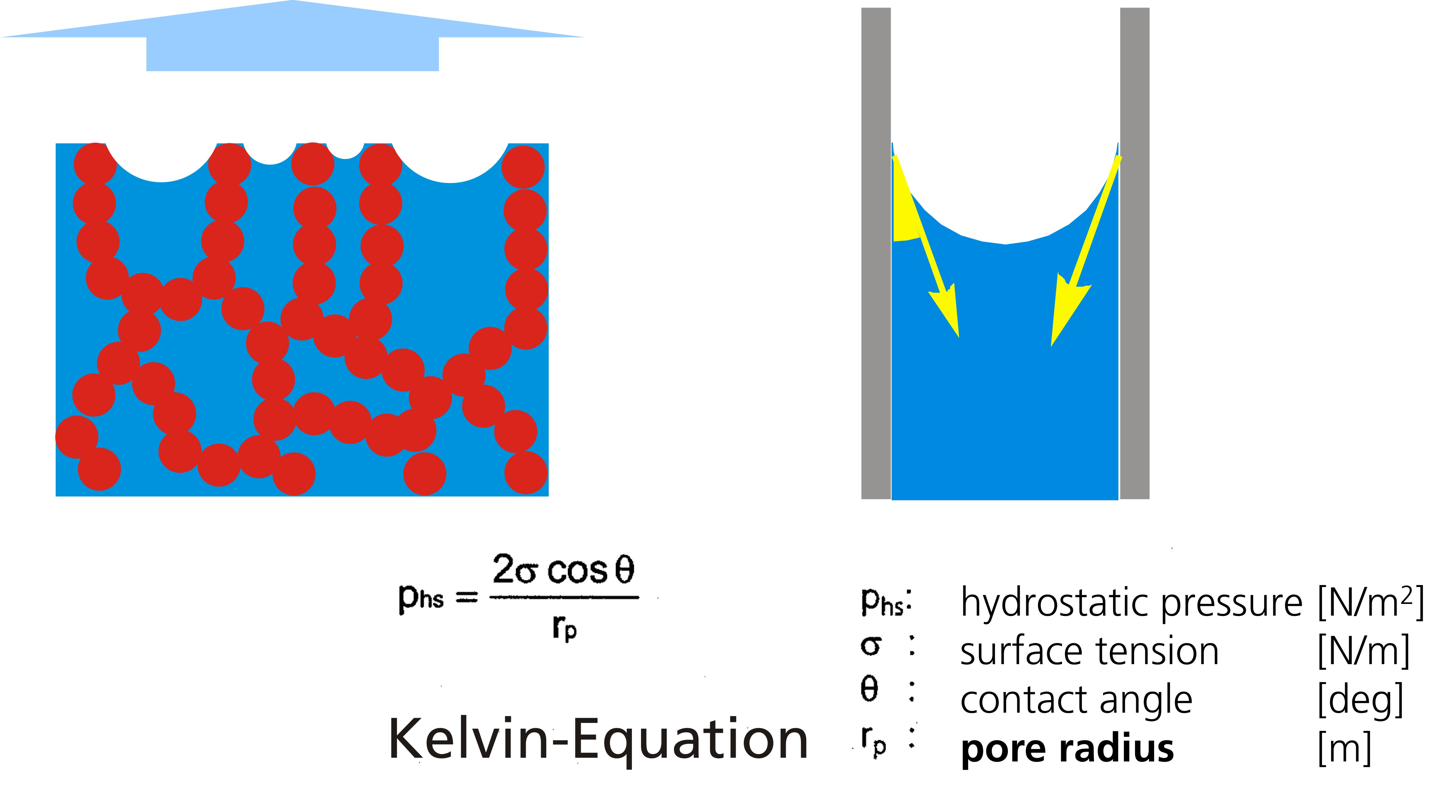 Drying from sol-gel network and illustration of related capillary forces